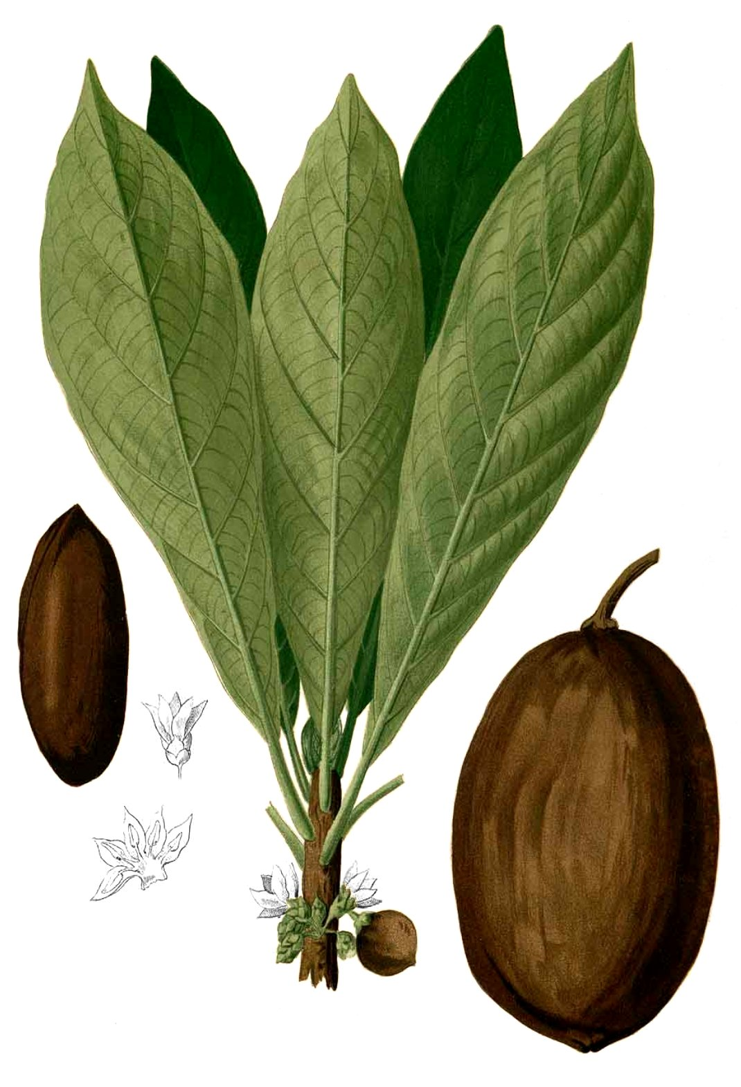 Plate from book